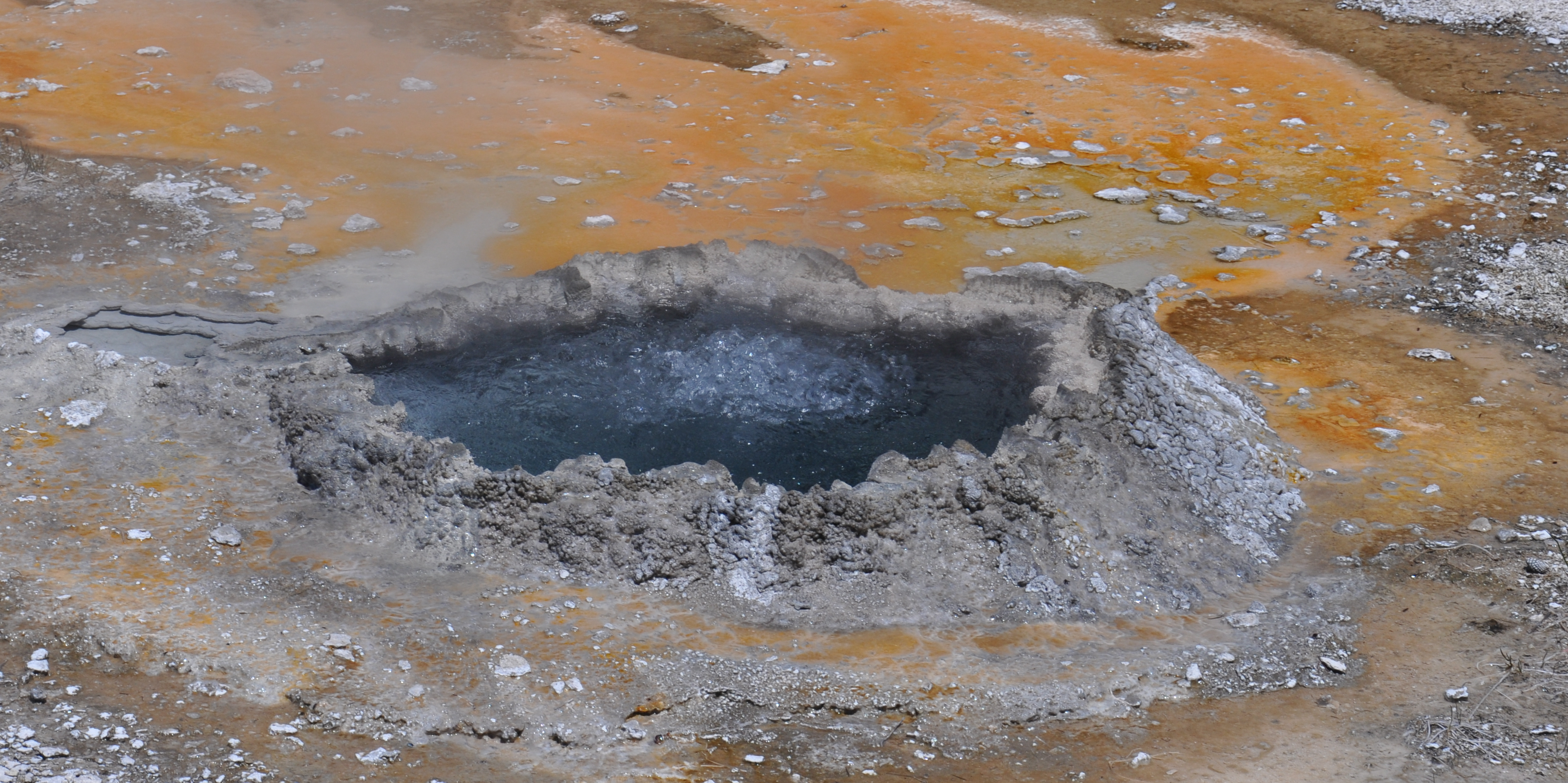 Chinese Spring (early afternoon, 1 June 2013) 2